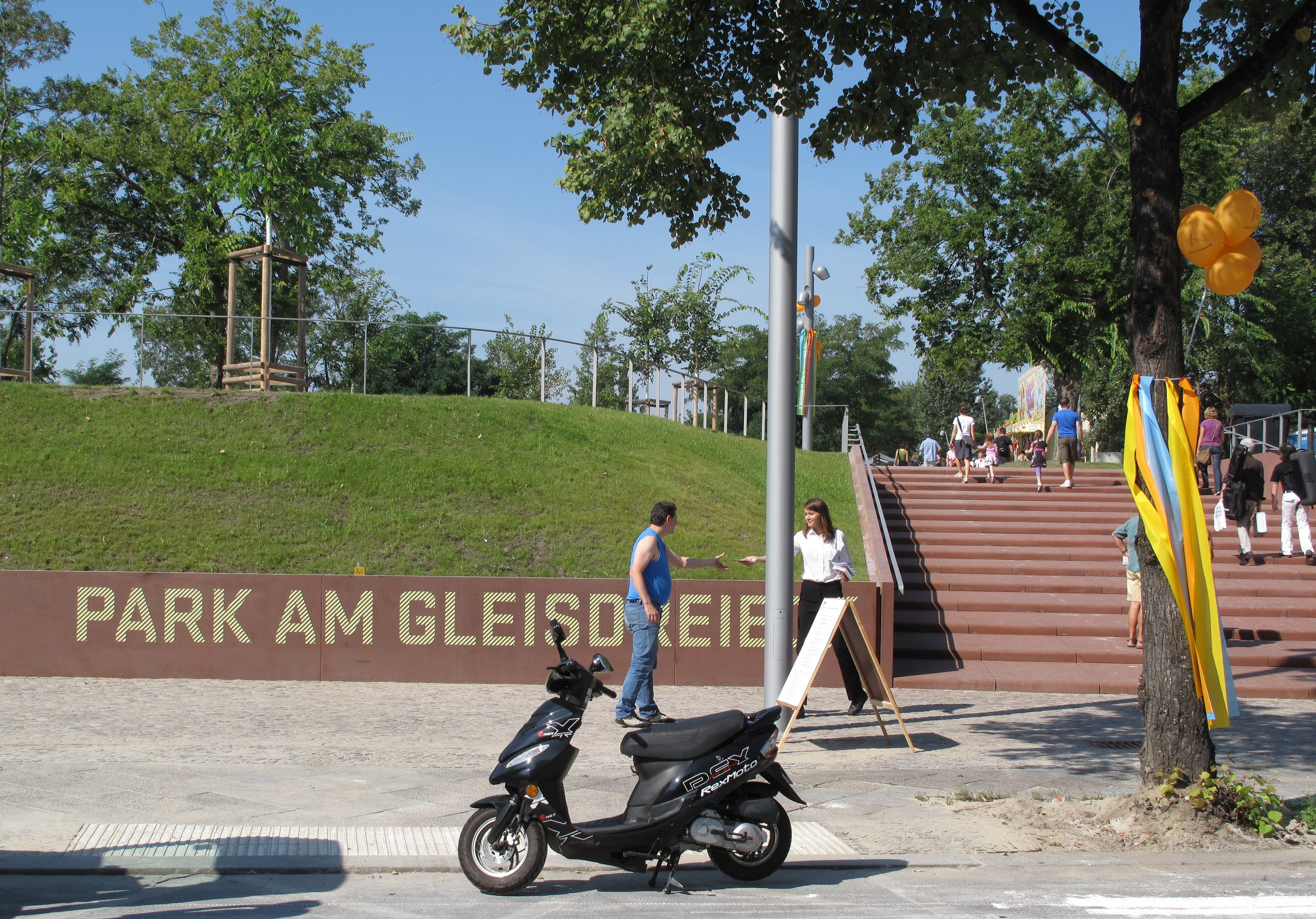 Ostpark, entrance Möckernstraße/Hornstraße. The Ostpark is a 17 hectare part of the Park am Gleisdreieck in Berlin-Kreuzberg, Germany. The Ostpark was opened on September 2, 2011.